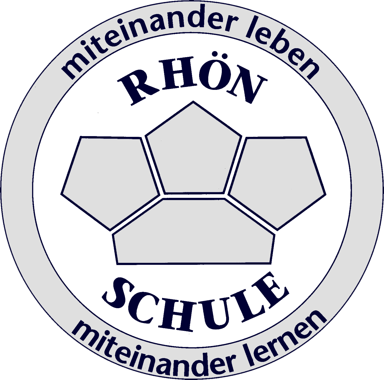 Logo der Rhönschule in Gersfeld (WWW).